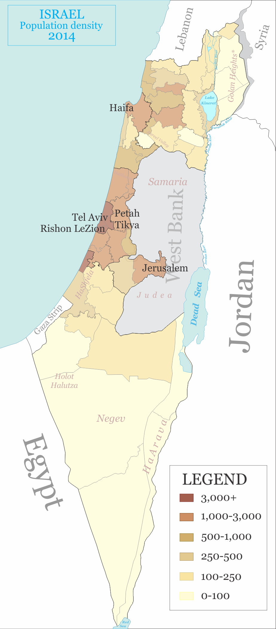 Population density of Israel by geographical region, as defined by the government and Central Bureau of Statistics.